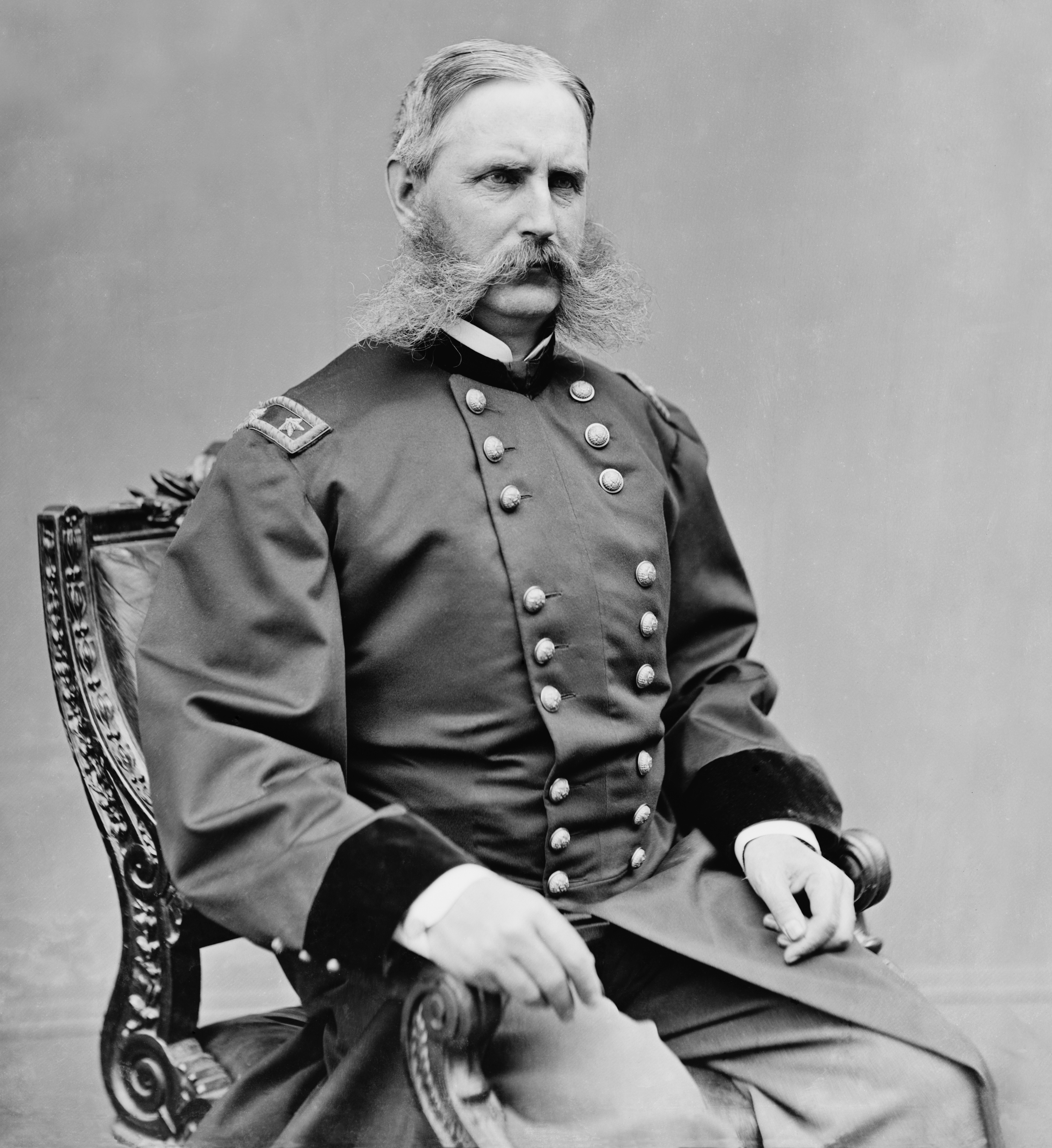 Christopher C. Augur. Library of Congress description: "General C. C. Augur, U.S.A."